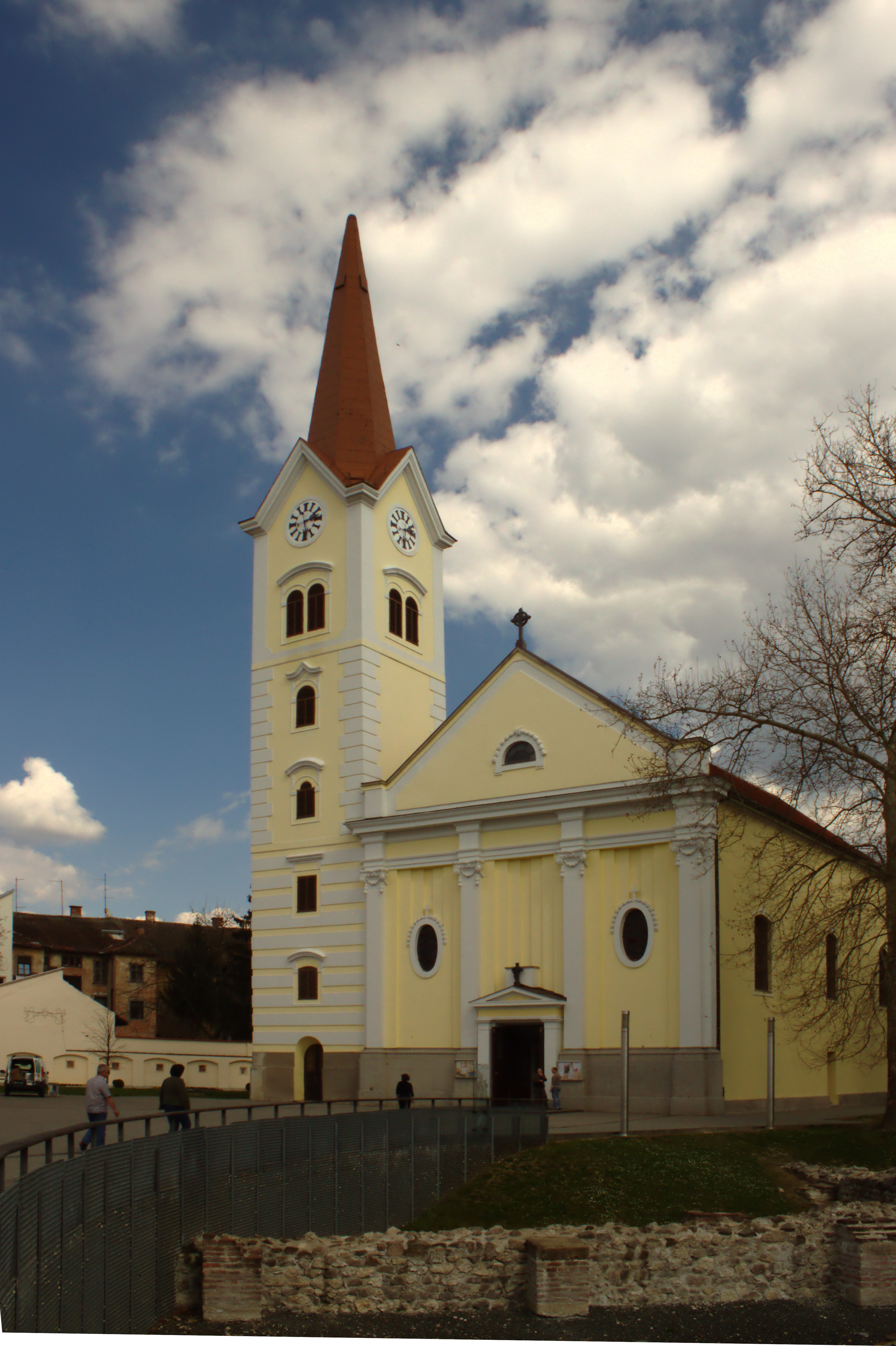 A church in the central part of the town of Sisak, Croatia